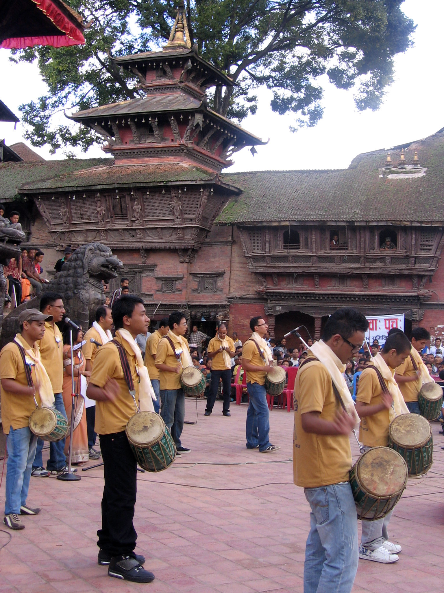 Performance of Gunla Bajan religious music at Kathmandu Durbar Square, Kathmandu, Nepal.